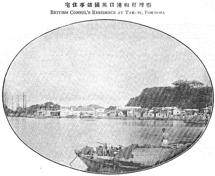 British Consul's Residence at Takow, Formosa